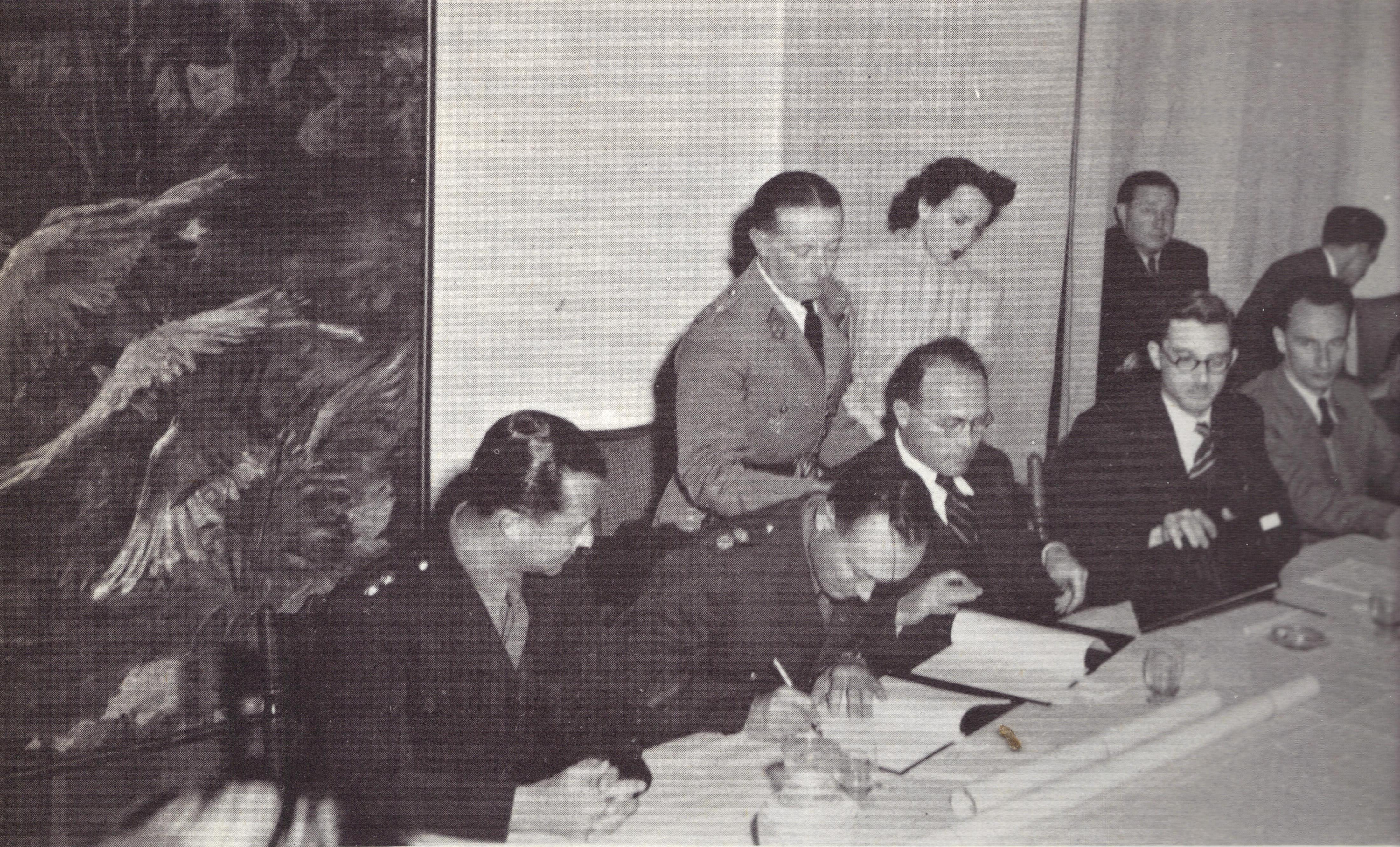 Moshe Dayan signing the Israeli-egyptian 1949 Armistice Agreements